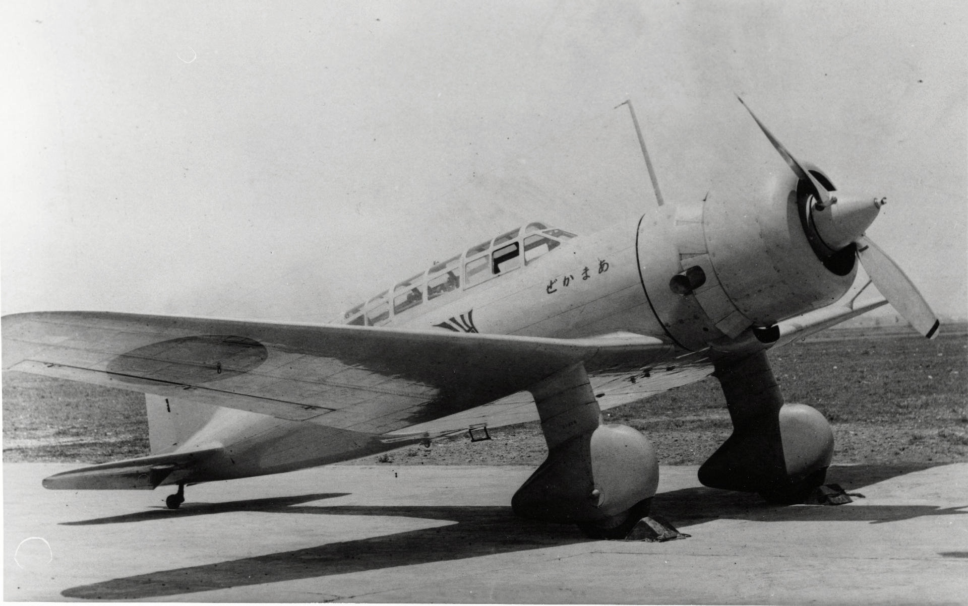 Mitsubishi C5M Karigane J-BAAL after joining IJNAF